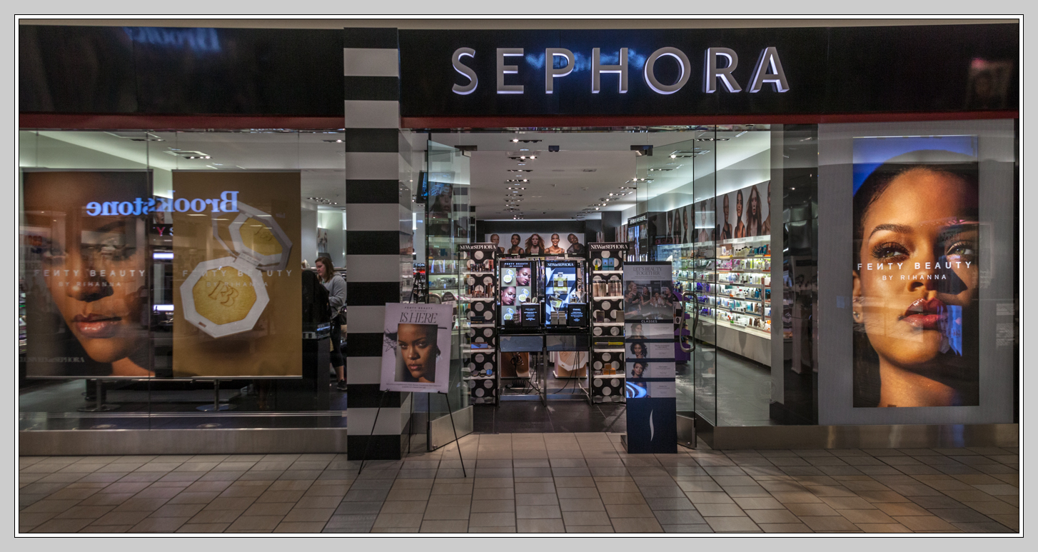 A photo from the Maine Mall in South Portland, Maine. Rihanna is behind a line of beauty products that use her family name.